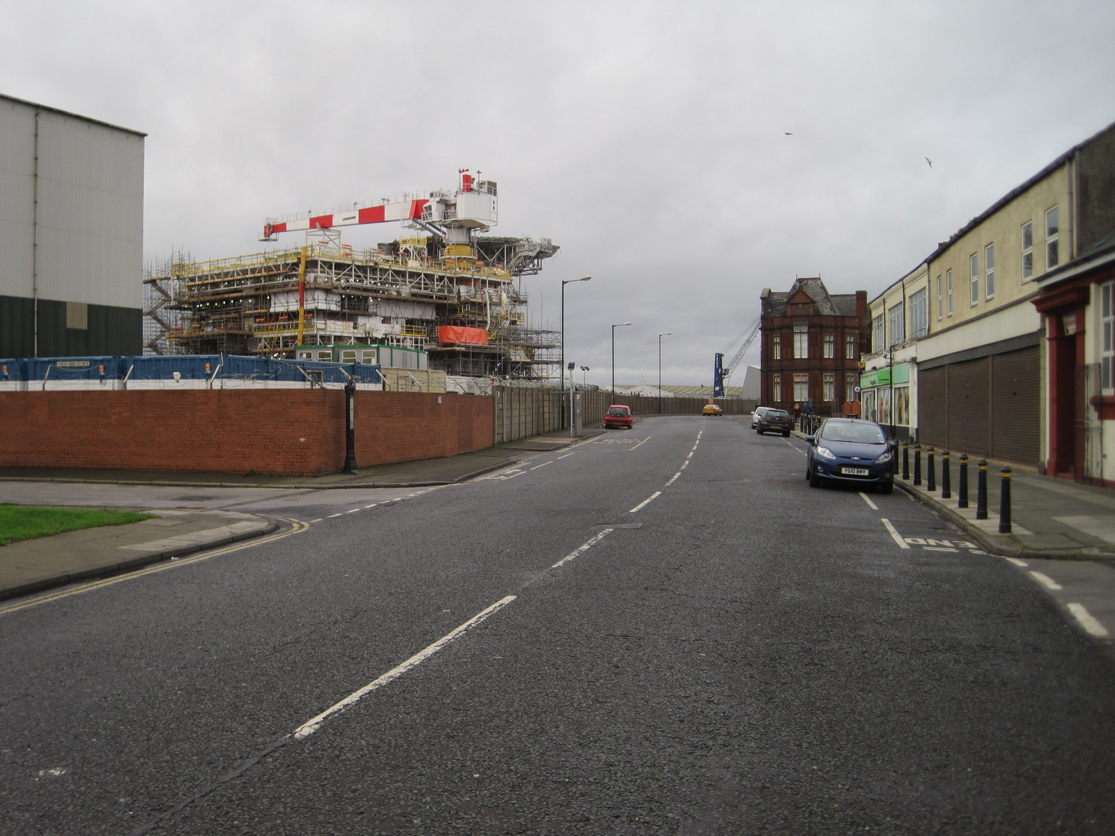 Hartlepool railway station (site), County DurhamOpened in 1835 by the Hartlepool Dock and Railway Company as the terminus of the line from Haswell, this station closed to passengers in 1947 and completely in 1964. At the time, the station we now call Hartlepool was known as "West Hartlepool" - see NZ5132 : Hartlepool railway station, County Durham. View west on Northgate Street. The terminus building was to the left of the wall, roughly where the marine structure is, with the tracks further to the left.